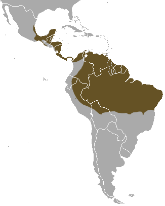 Greater Grison (Galictis vittata) range